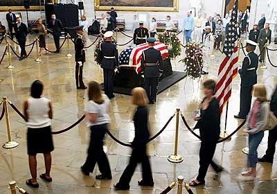 Ronald Reagan lies in state in the United States Capitol Rotunda